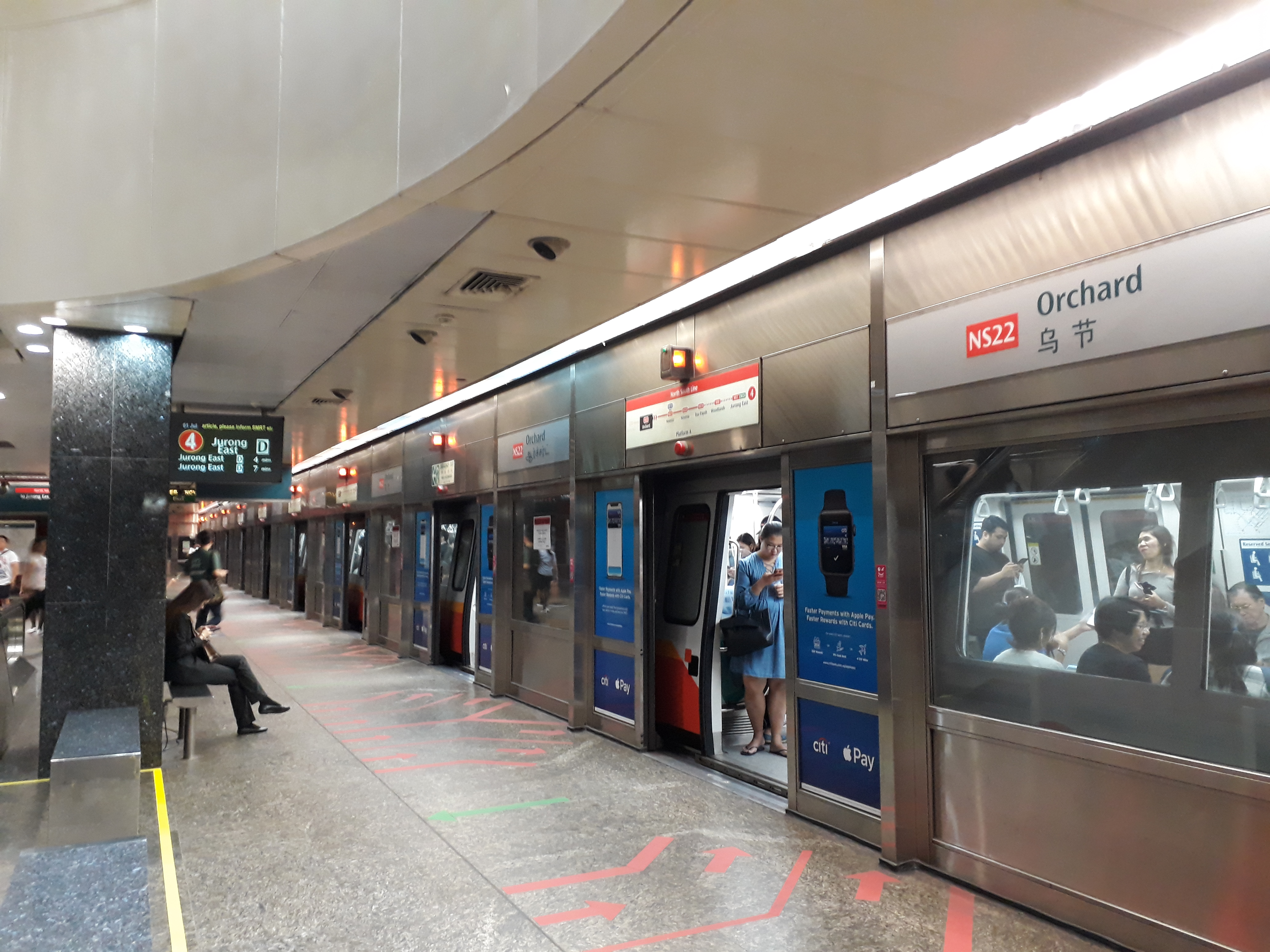 Platform A of Orchard station